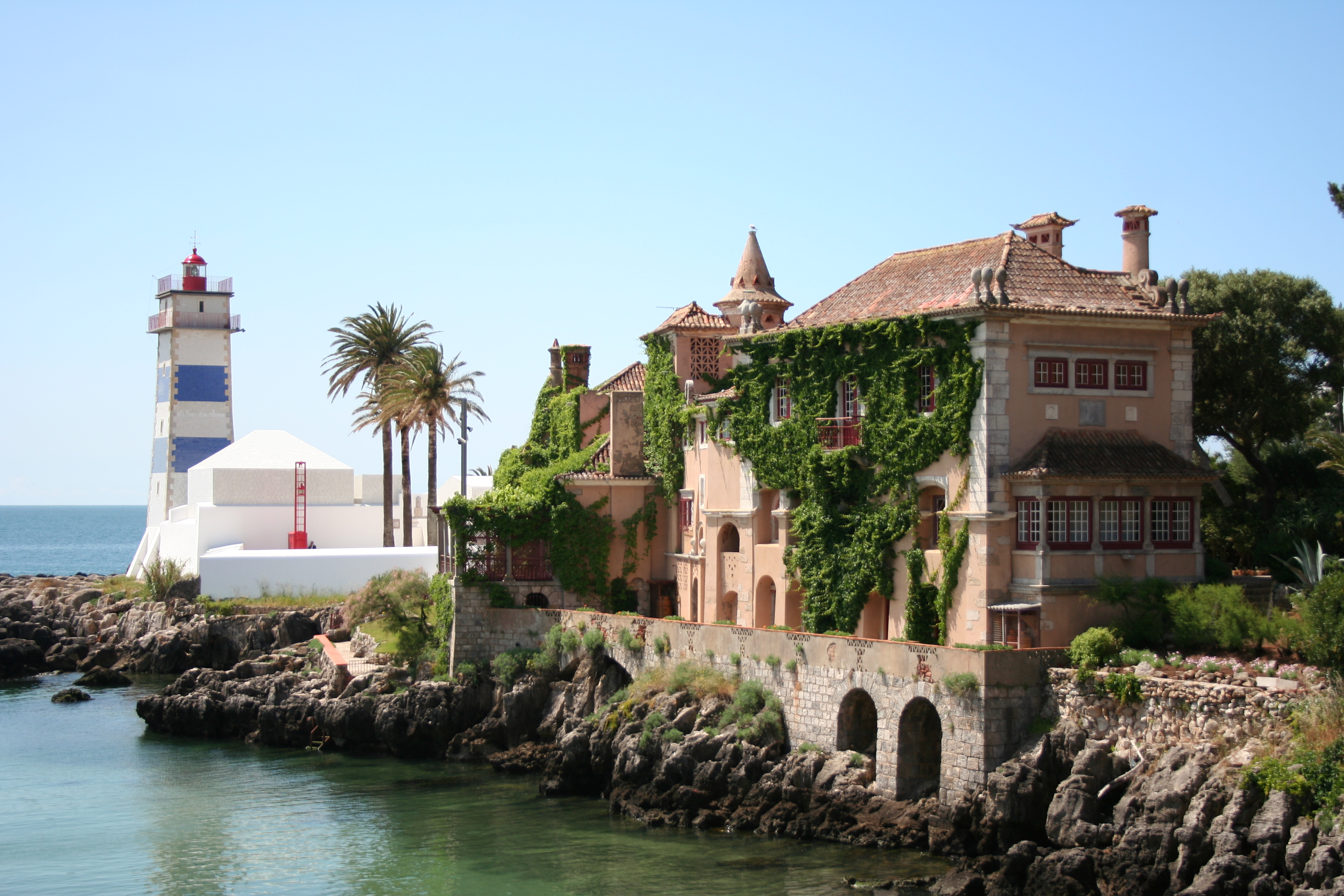 Santa Maria House and Lighthouse in Cascais, Portugal